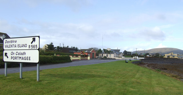 Approaching Portmagee By the R565 from the east. The hill in the distance is Foiltagarriff at the western end of Valentia Island.